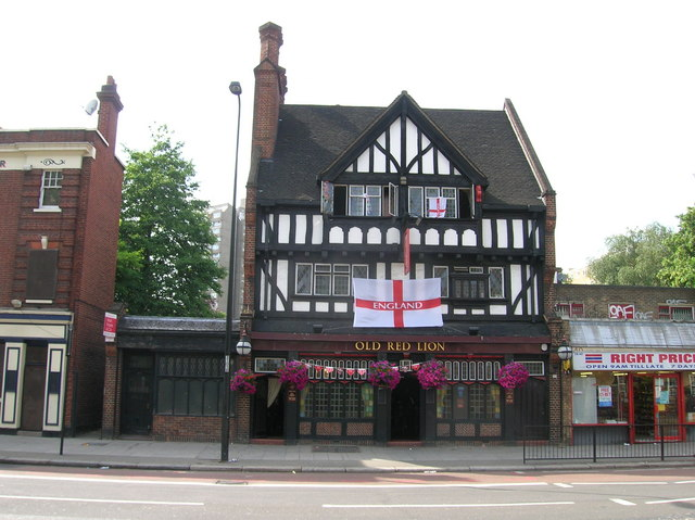 Old Red Lion, Kennington Park Road, London SE11